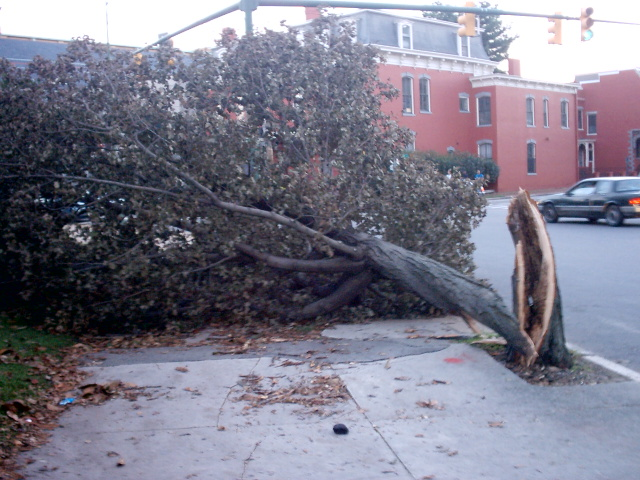 Picture of a tree split in half in Richmond, Virginia, caused by Hurricane Isabel.